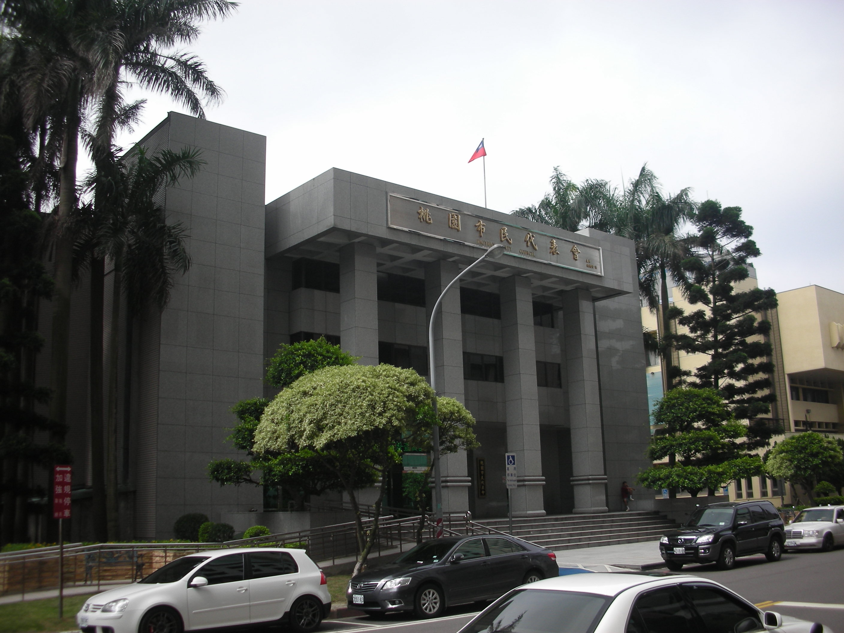 Taoyuan City Council, Taoyuan County.